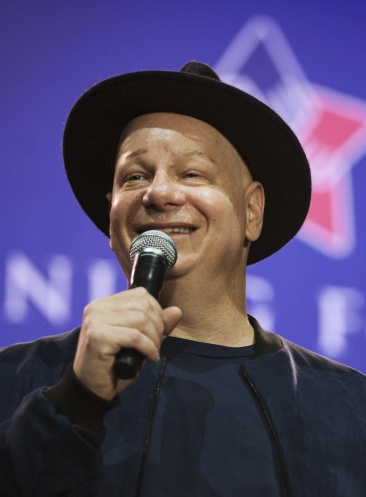 Jeff Ross, comedian, performs a comedy skit during the ‘Celebration of Service’ comedy show on Joint Base Andrews, Md., May 5, 2016.